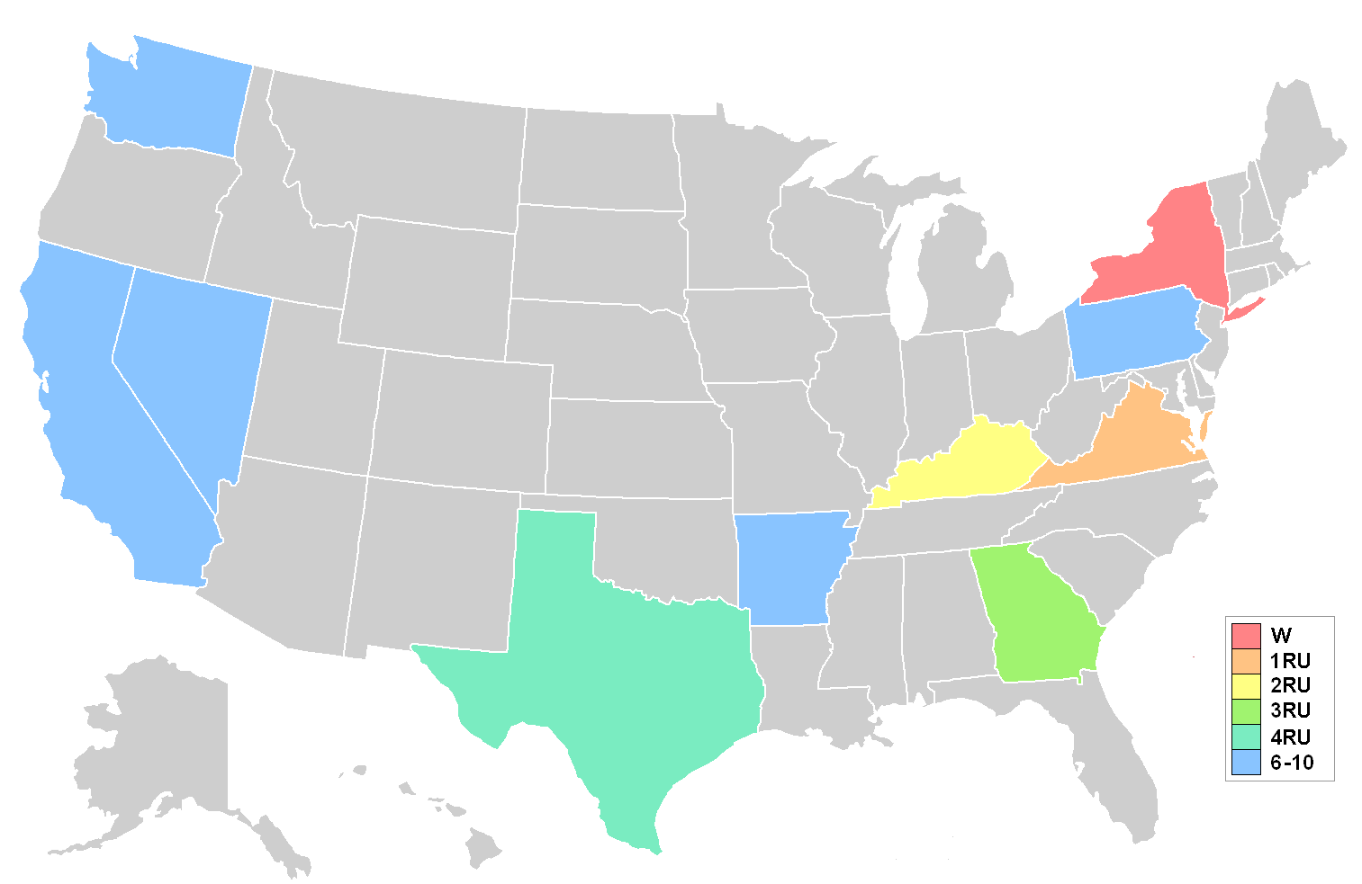 Map showing placements at the Miss Teen USA 1983 pageant. Key on graphic shows colour coding for break down of placements.